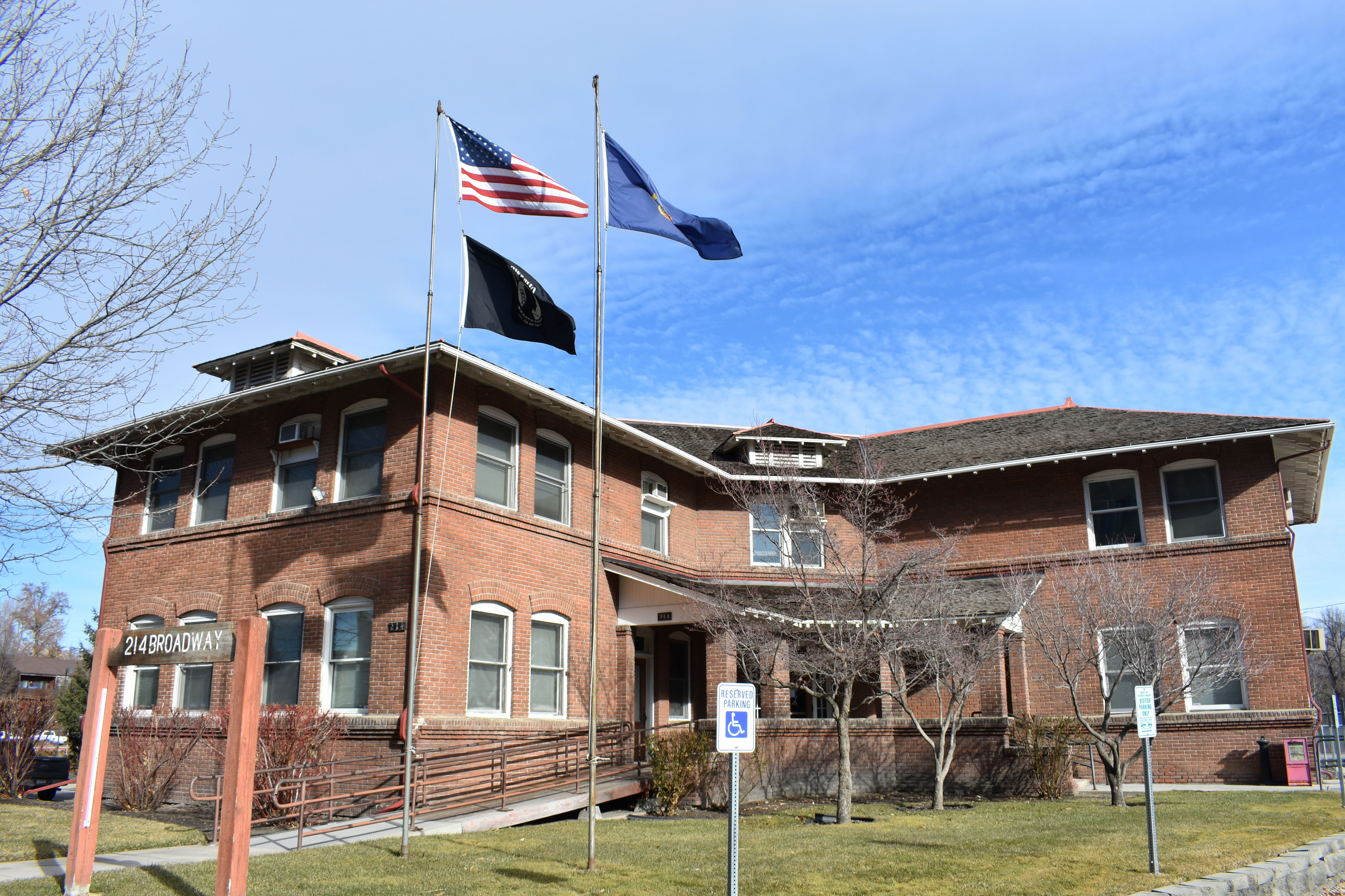 The U.S. Reclamation Service Boise Project Office is listed on the National Register of Historic Places.